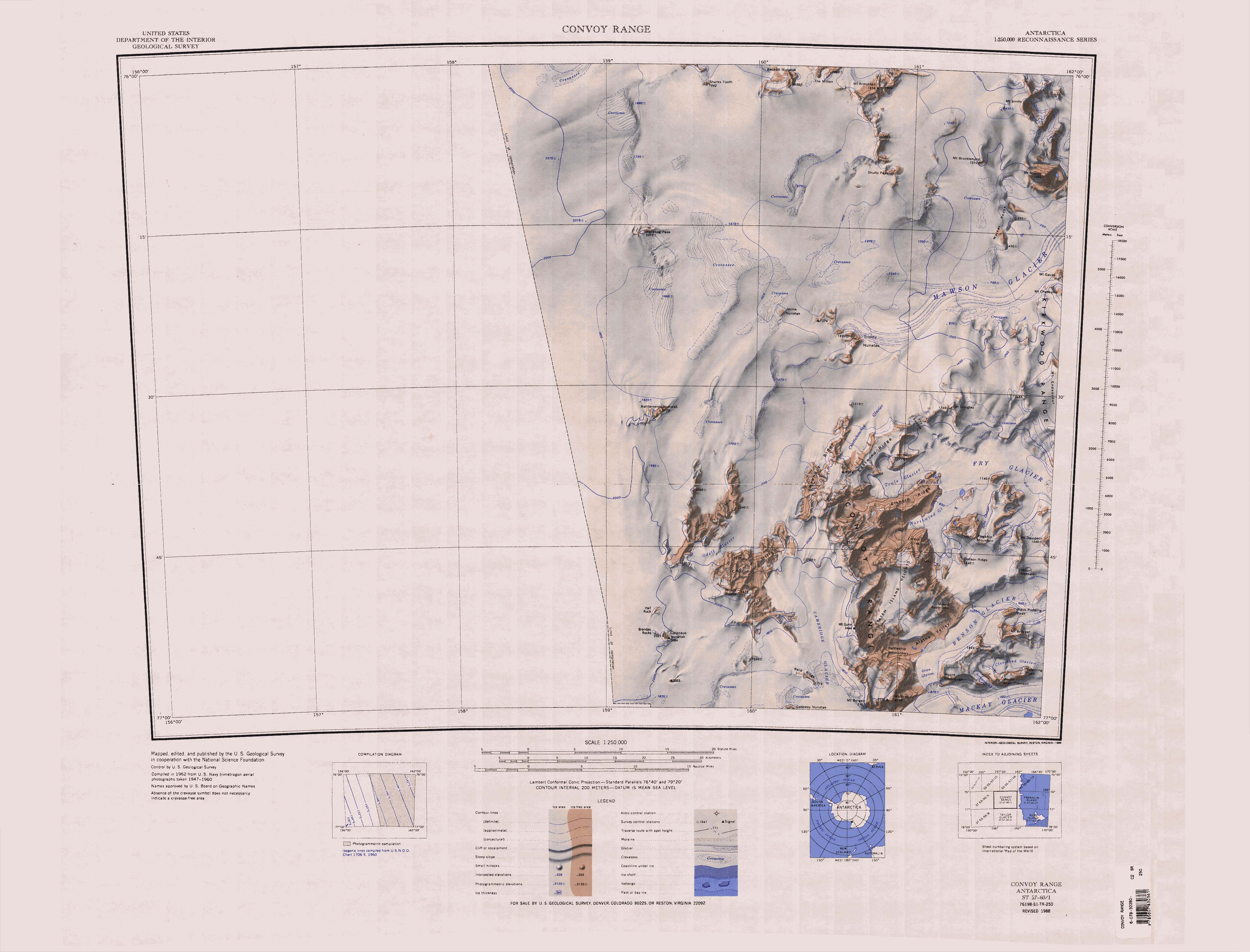 1:250,000-scale topographic reconnaissance map of the Convoy Range area from 156°-162'E to 76°-77°S in Antarctica. Mapped, edited and published by the U.S. Geological Survey in cooperation with the National Science Foundation.